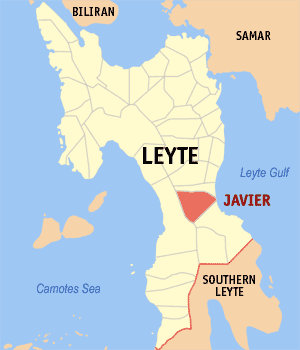 Map of Leyte showing the location of Javier